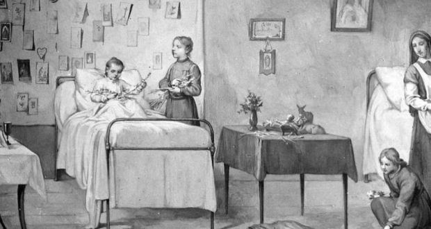 Ellen Organ known as Little Nellie of Holy God (August 24, 1903 – February 2, 1908) was an Irish child, venerated by some in the Roman Catholic Church for her precocious spiritual awareness and alleged mystical life. Particularly dedicated to the Eucharist, the story of her life inspired Pope Pius X to admit young children to Holy Communion. In 1910, Pope Pius X issued the decree Quam singulari, which lowered the age of Holy Communion for children from 12 years to around 7.